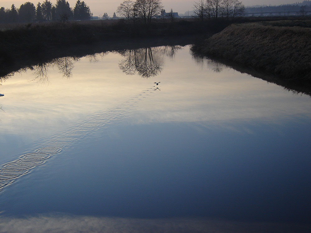 Serpentine River, Surrey BC Keith Freeman photo. January, 2007.